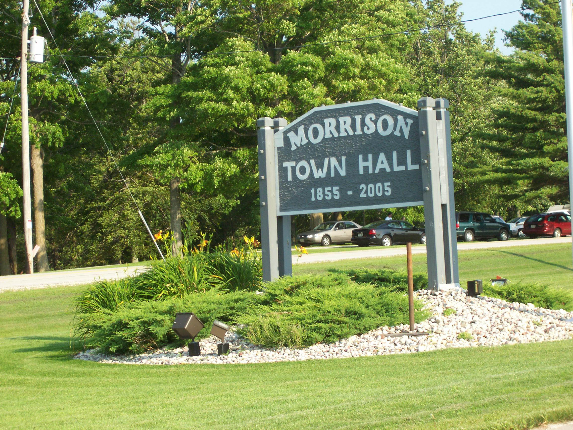 Looking south at the sign for the old town hall (1855-2005) for Morrison, Wisconsin, USA in Brown County.